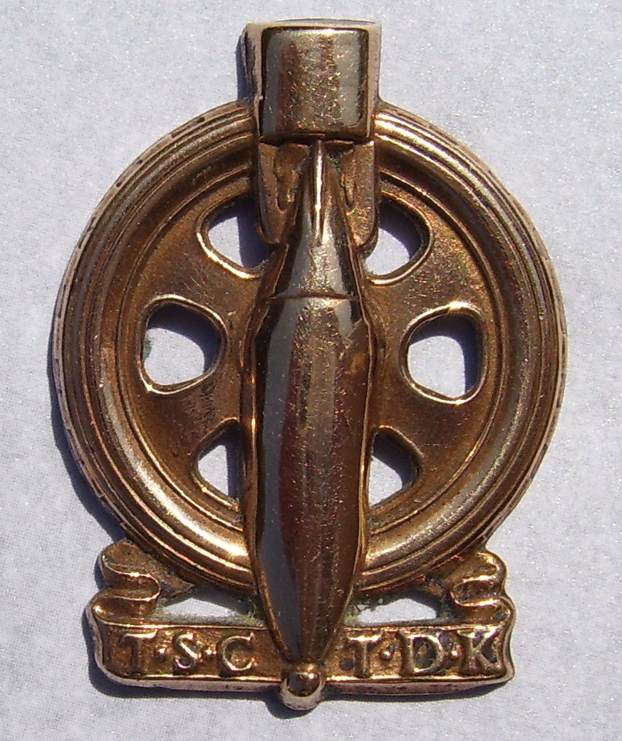 Cap Badge of the Technical Services Corps of the South African Army. This badge was replaced in the 1950's with one similar to that of REME.